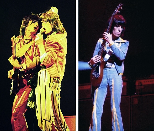 Members of The Rolling Stones in 1975, Chicago Stadium, Illinois, USA. Left picture: Mick Jagger (right) and Ron Wood (left) / right picture: Bill Wyman with Dan Armstrong london bass.